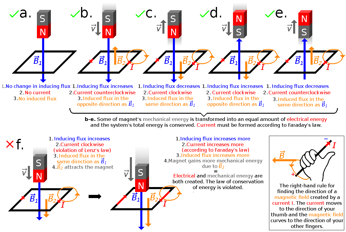 Lenz's law tells the direction of a current in a conductor loop induced indirectly by the change in magnetic flux through the loop. Scenarios a, b, c, d and e are possible. Scenario f is impossible due to the law of conservation of energy (energy can not be destroyed or created). The charges (electrons) in the conductor are not pushed in motion directly by the change in flux, but by a perpendicular circular electric field (not pictured) which directs a force to the electrons. This electric field surrounds the total magnetic field of inducing and induced magnetic fields. Changing total magnetic field induces the electric field. It is worth noting that electrons always move to the opposite than current I does.